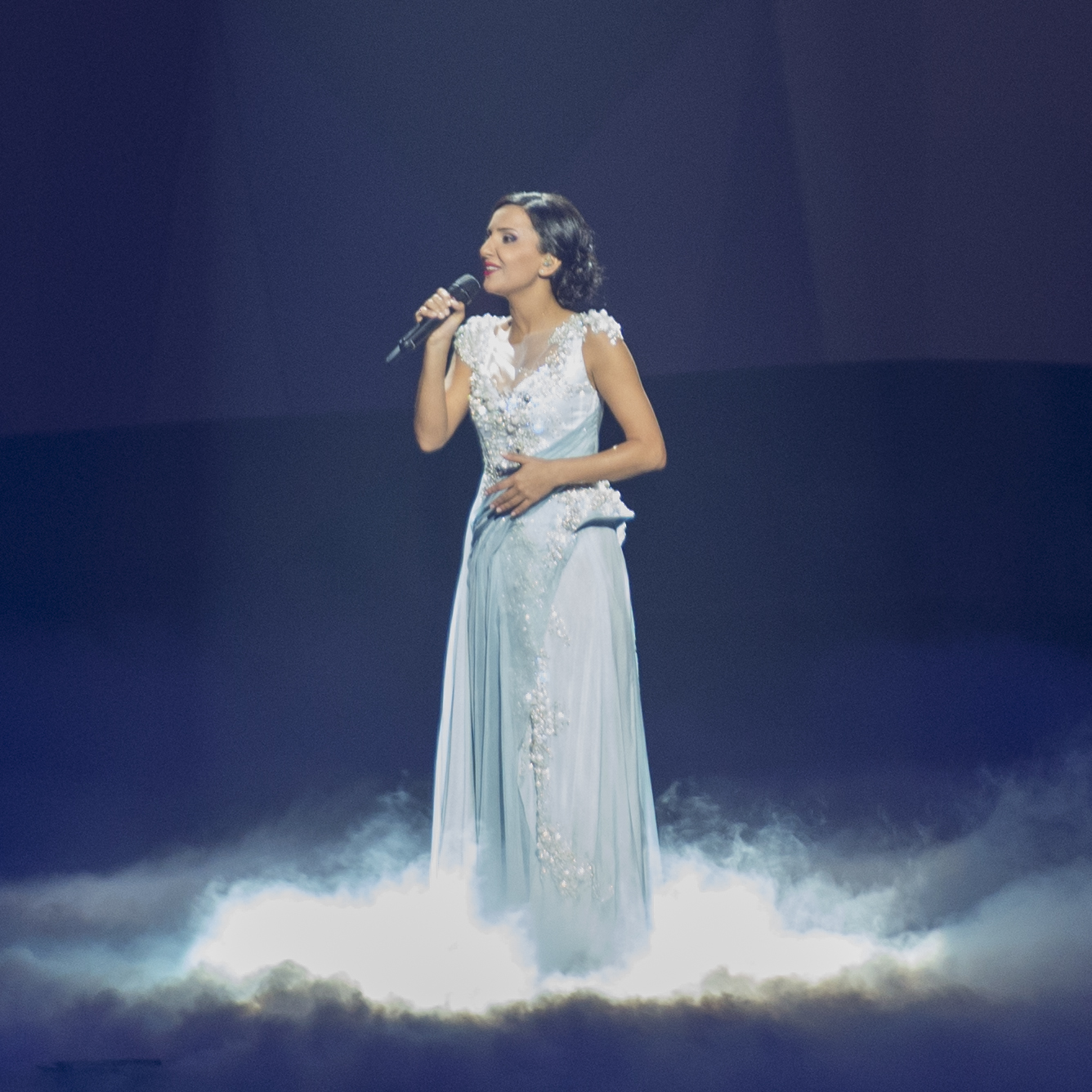 Nodiko Tatishvili and Sopho Gelovani representing Georgia with the song "Waterfall" during the second dress rehearsal of the second semi final of the Eurovision Song Contest 2013 Malmö. (Help translate this text)